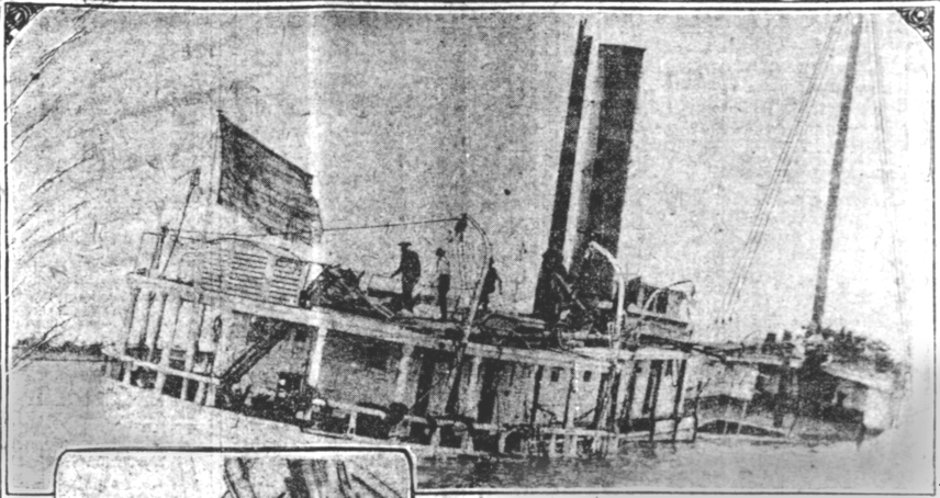 The San Pedro developed a list to starboard and was half sunk, following the fatal collision with the SS Columbia. The aft mast has also collapsed as a result of the collision.